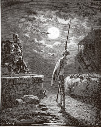 The illustration of the various episodes of Quixote generated works of remarkable quality, such as the engravings of Gustave Doré. In this image, Don Alonso veils his armor.